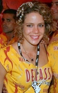 Leandra Leal em 2011.